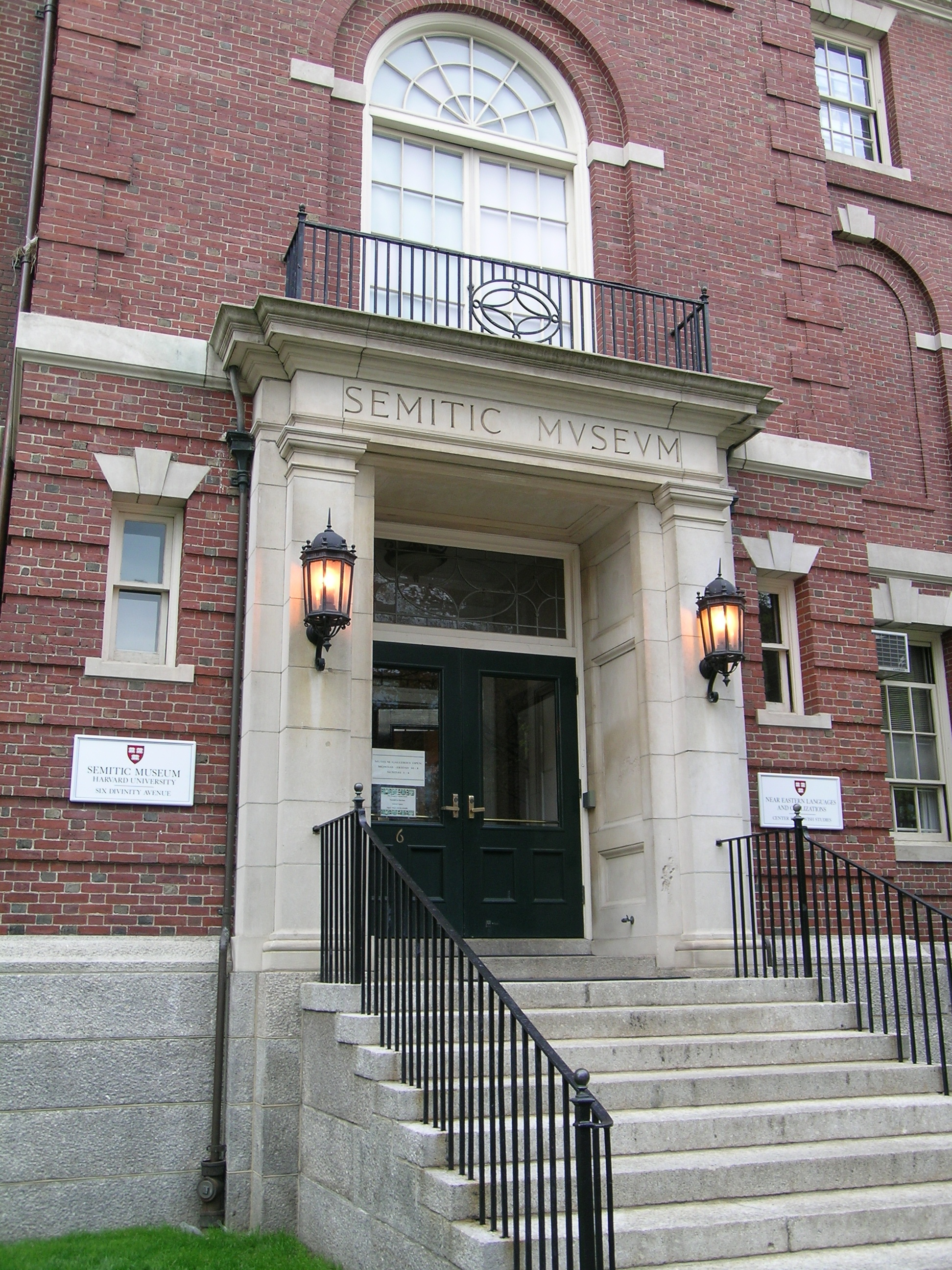 The Harvard Semitic Museum at Harvard University. May 2008 photo by John Stephen Dwyer.